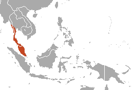 Dusky Leaf Monkey (Trachypithecus obscurus) range